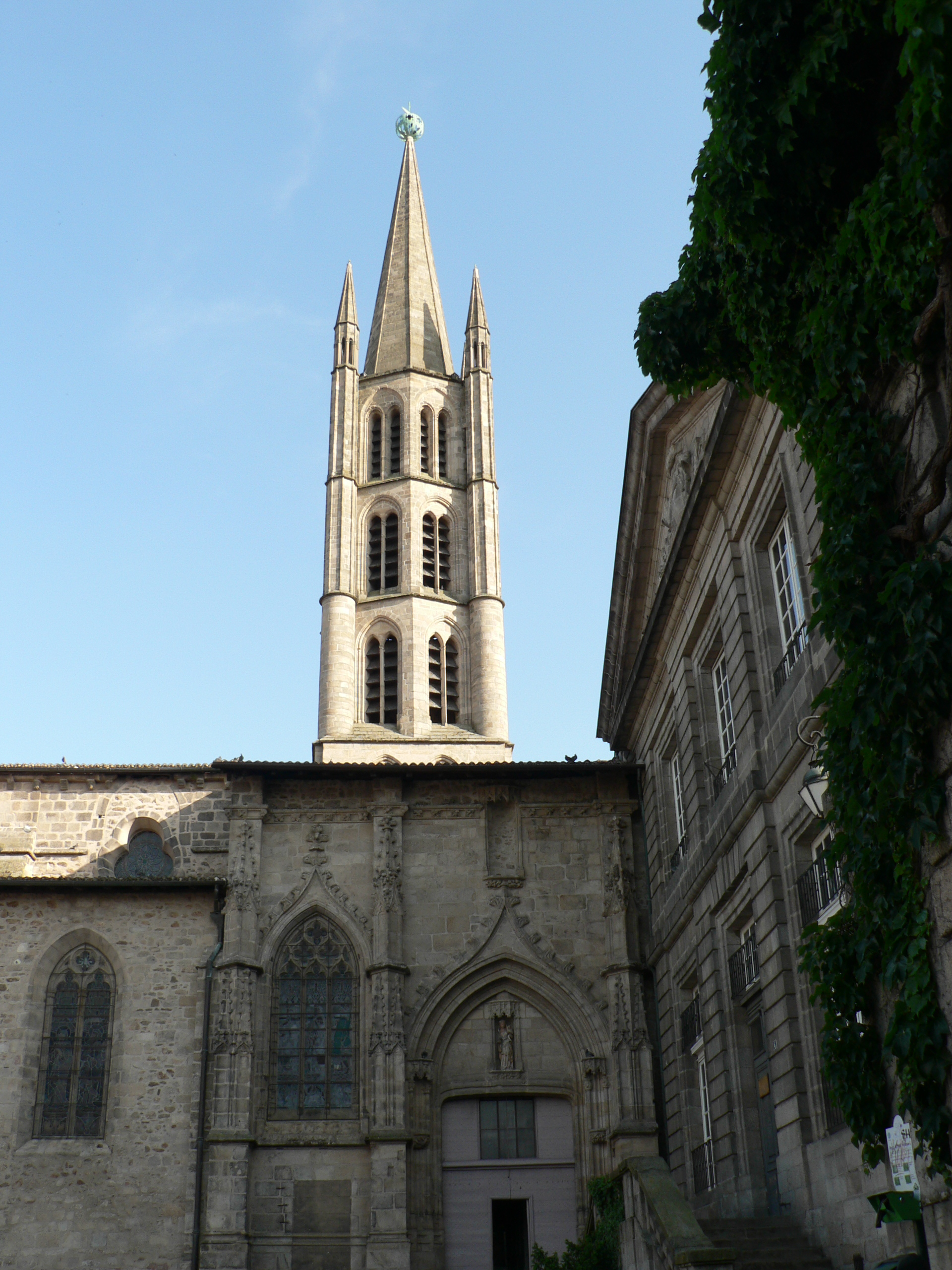 Holy Michel-Des-Lions's Church, Limoges, France